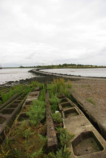 Towards Northey Island This is the Causeway to Northey Island that has been owned by the National Trust since 1978.